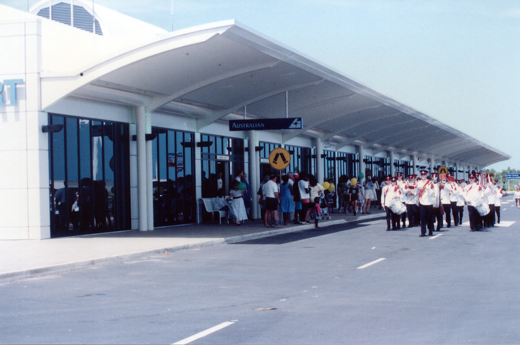 The move from a WWII hangar to the new purpose built air terminal on the northern side of Darwin Airport occurred in December 1991. The Darwin Brass Band was one of the attractions of the opening celebration.